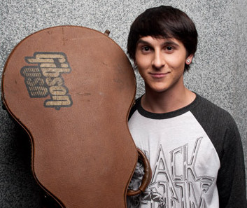 Mitchel Musso on Walmart Soundcheck, April 2011.